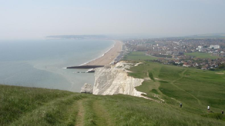 Seaford Cliff & Beach East Sussex, viewed from Seaford Head